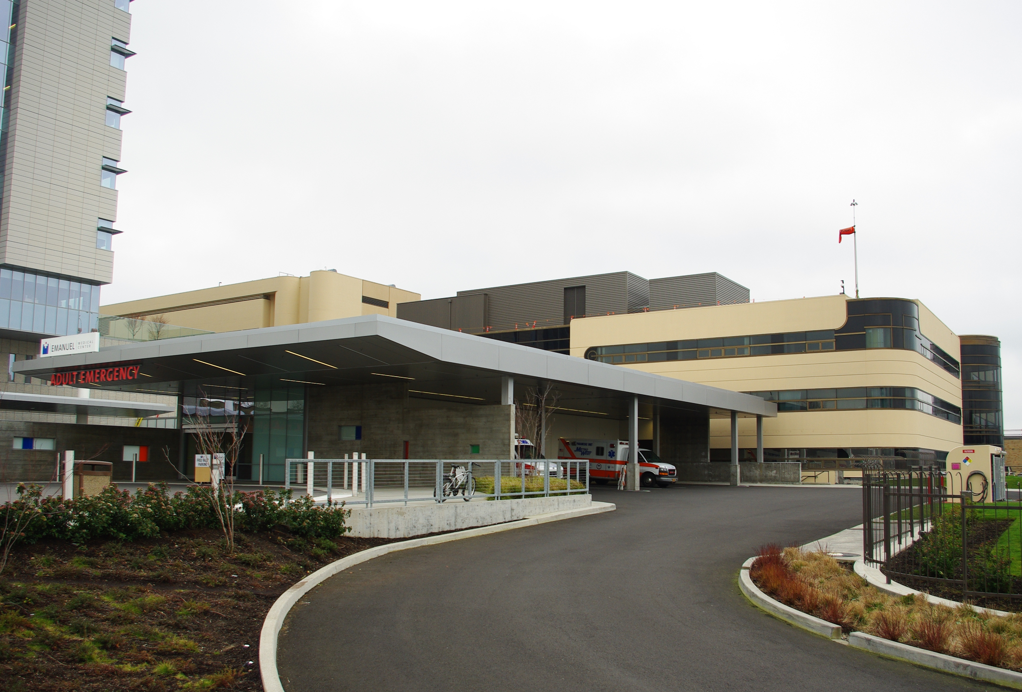 Legacy Emanuel Medical Center emergency room in Portland, Oregon.